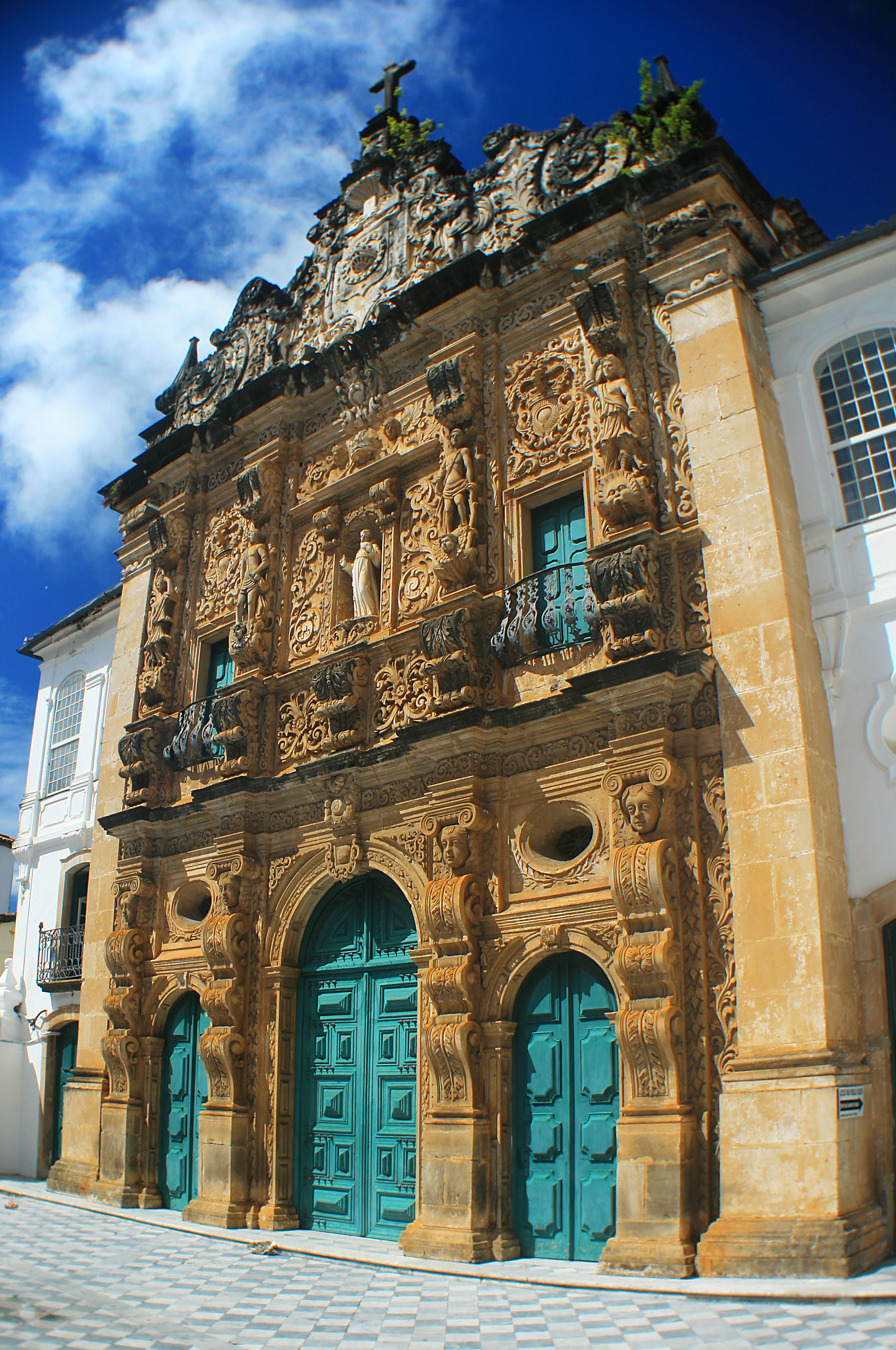 Façade of the Church of Terceiros of Sao Francisco in Salvador, Brazil